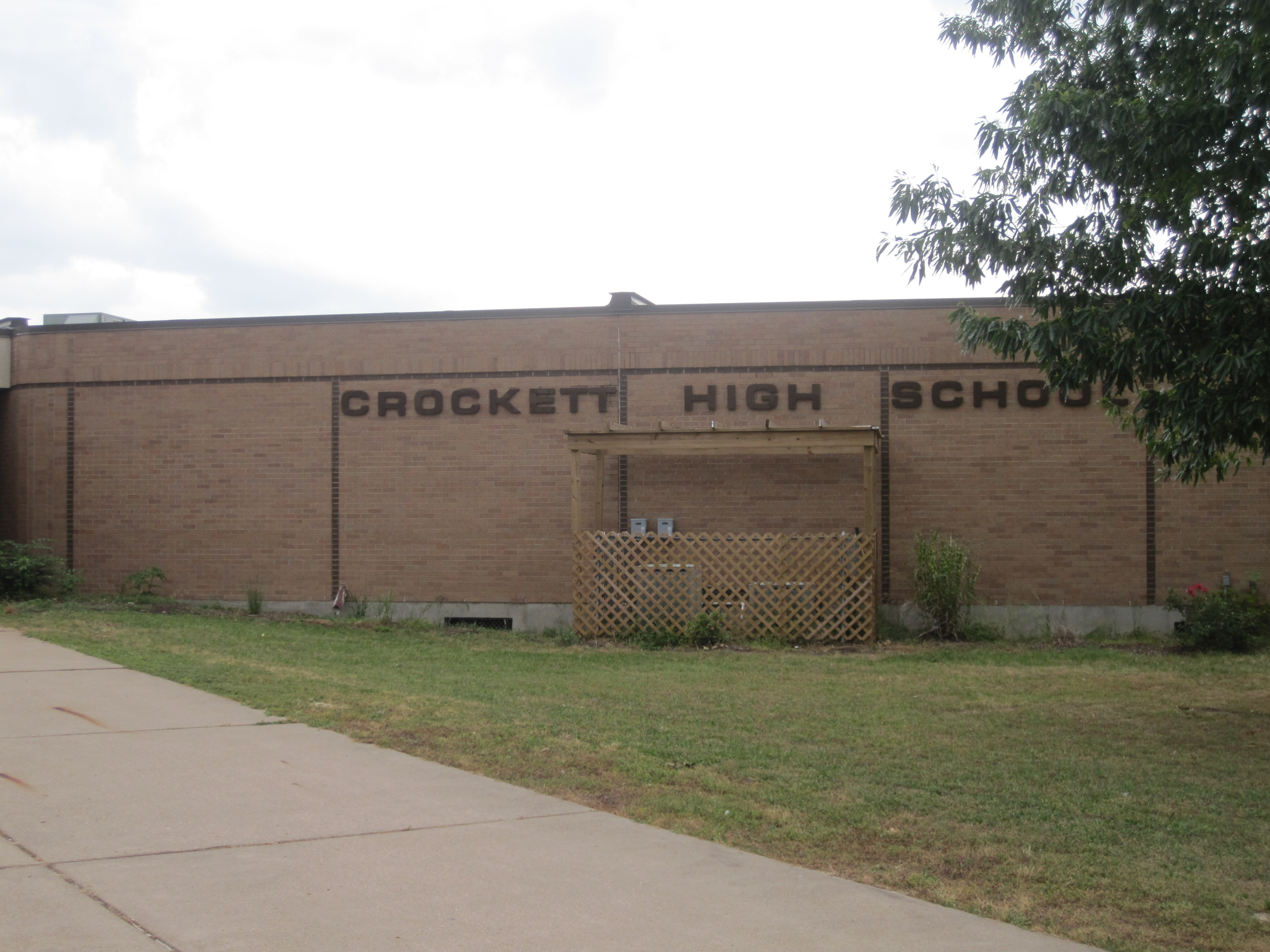 I took photo with Canon camera.